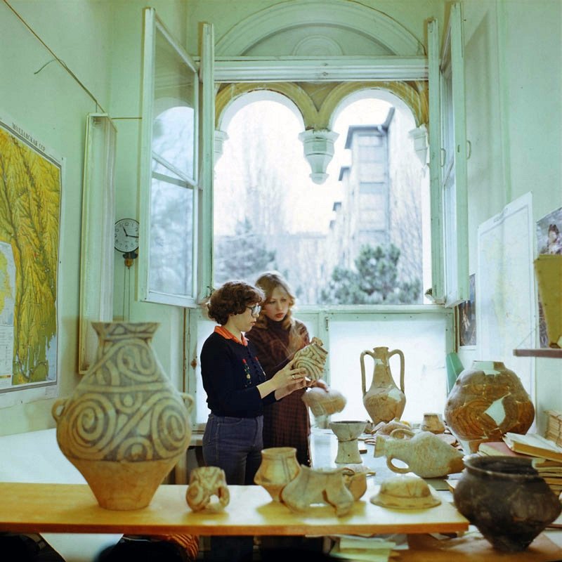 Employees of the Ethnographic museum. Kishinev, the Soviet Moldova (the beginning of 80th years).